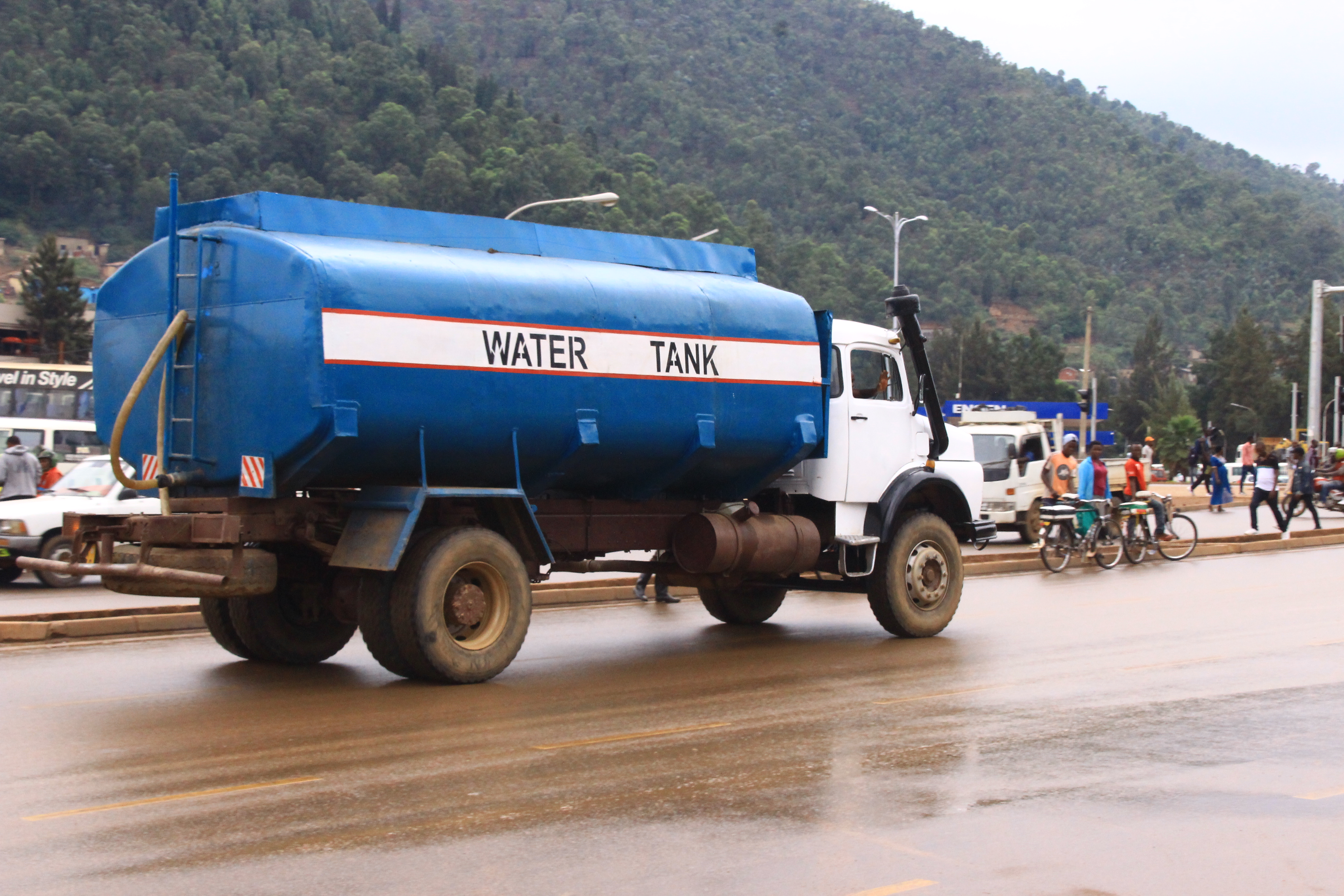 A water tank transport in Kigali This is an image with the theme "Africa on the Move or Transport" from: Rwanda